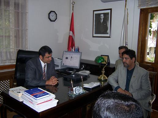 Iranian Ambassador to Ankara (Turkey) Visits USAK Director. 2006